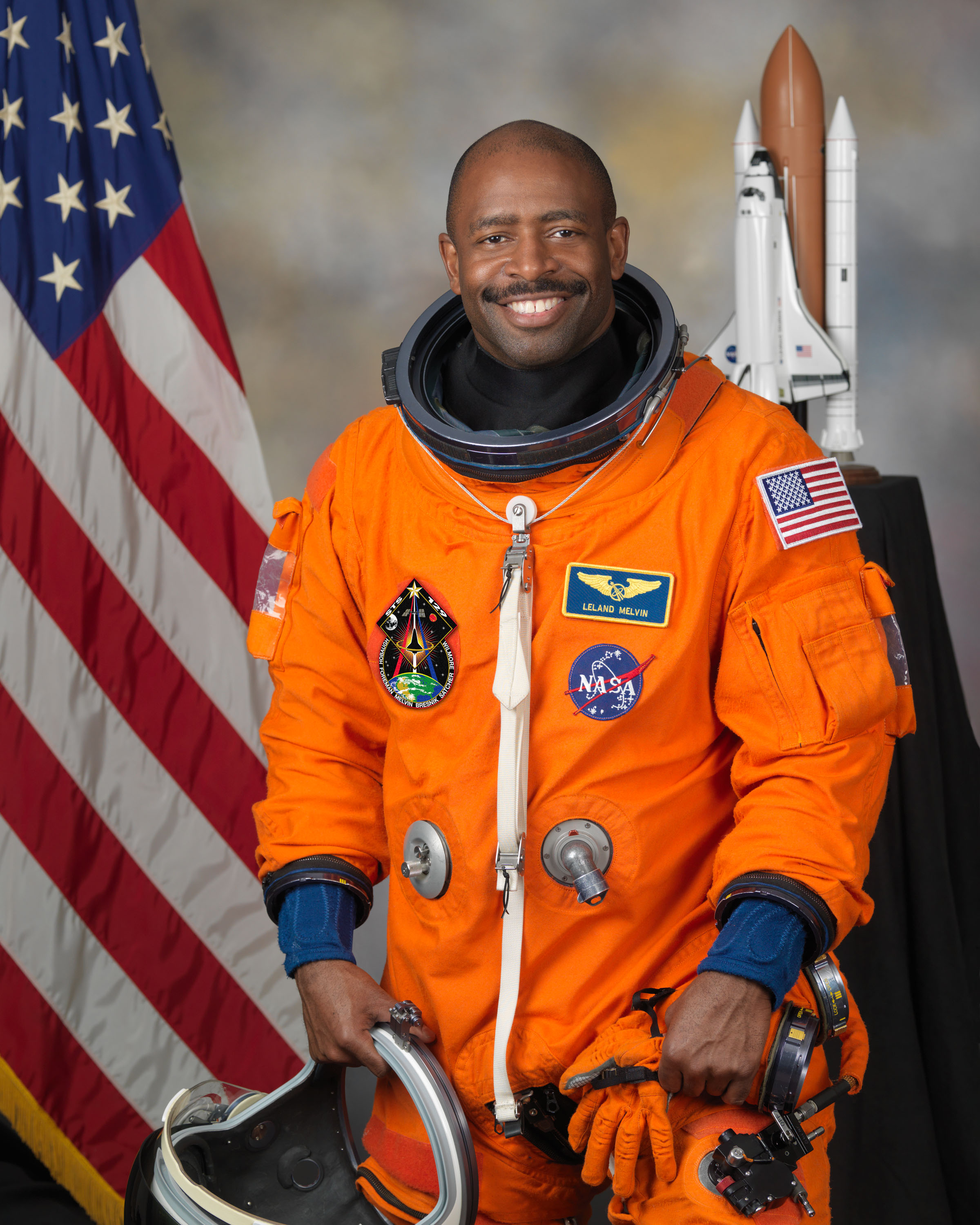 Astronaut Leland D. Melvin, mission specialist